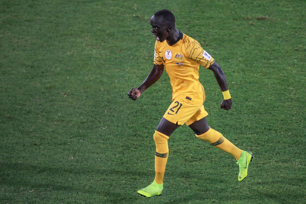 Australia & Syria Group B match, 2019 AFC Asian Cup